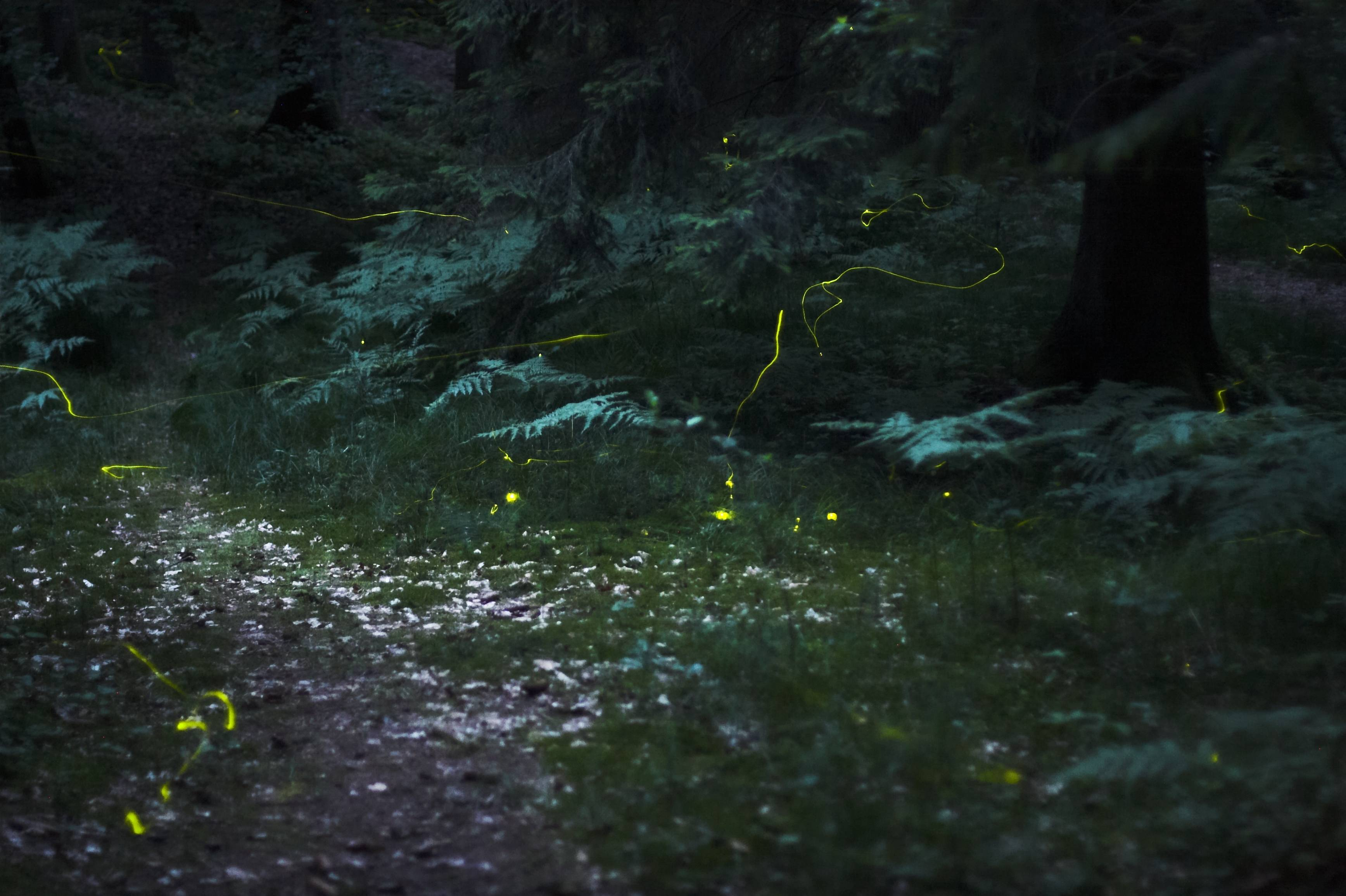 Fireflies in the forest near Nuremberg, exposure time 30s.